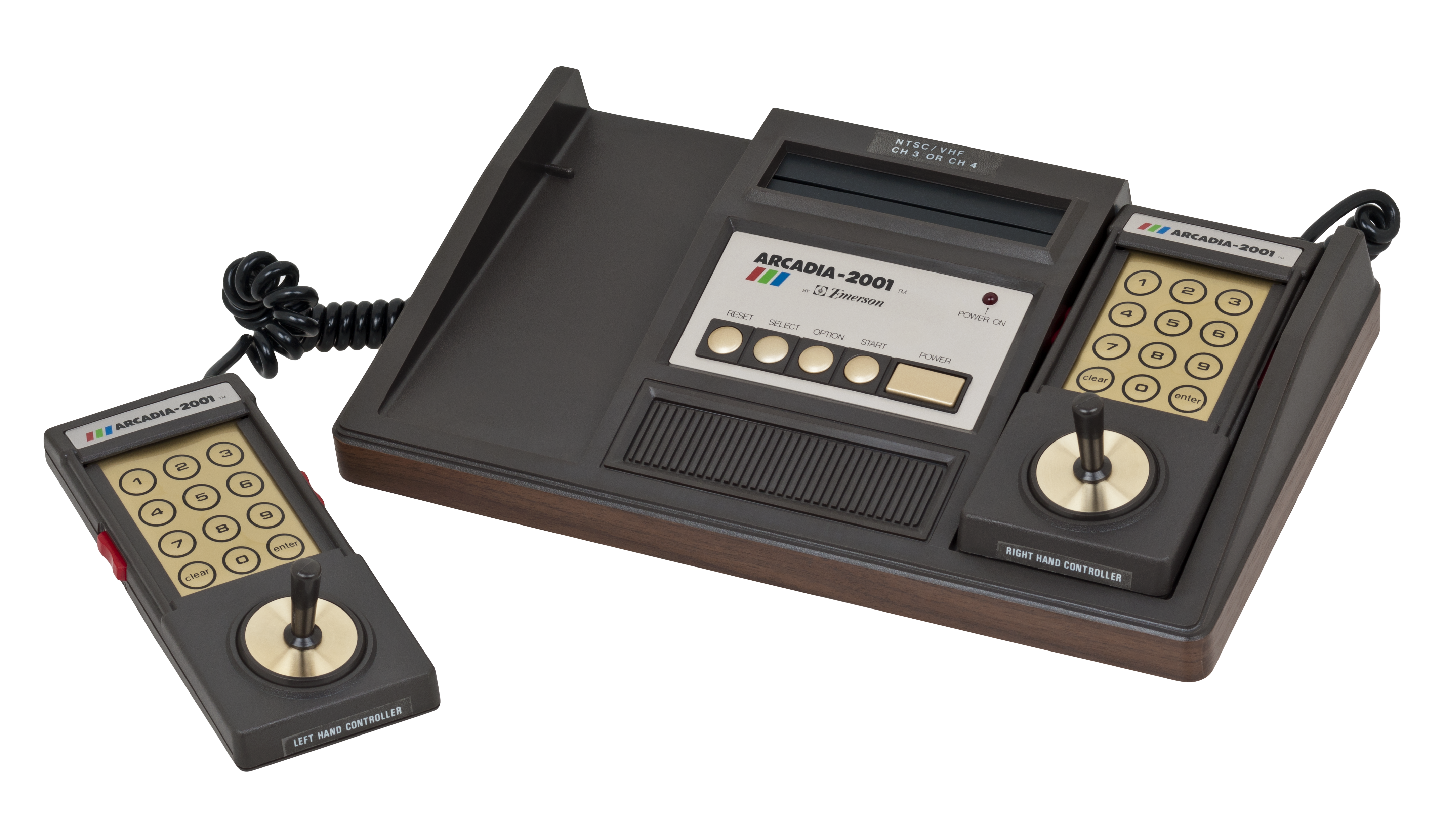 The Emerson Arcadia 2001, a 2nd generation video game console released in 1982.